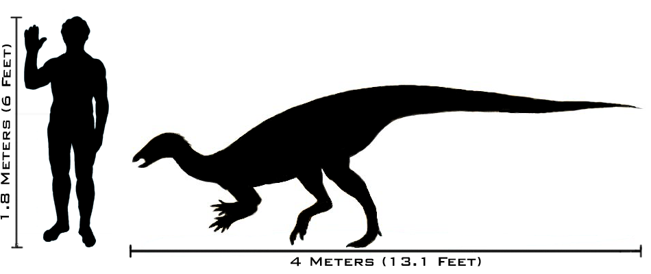 Size comparison between the hypsilophodontid Thescelosaurus and a human